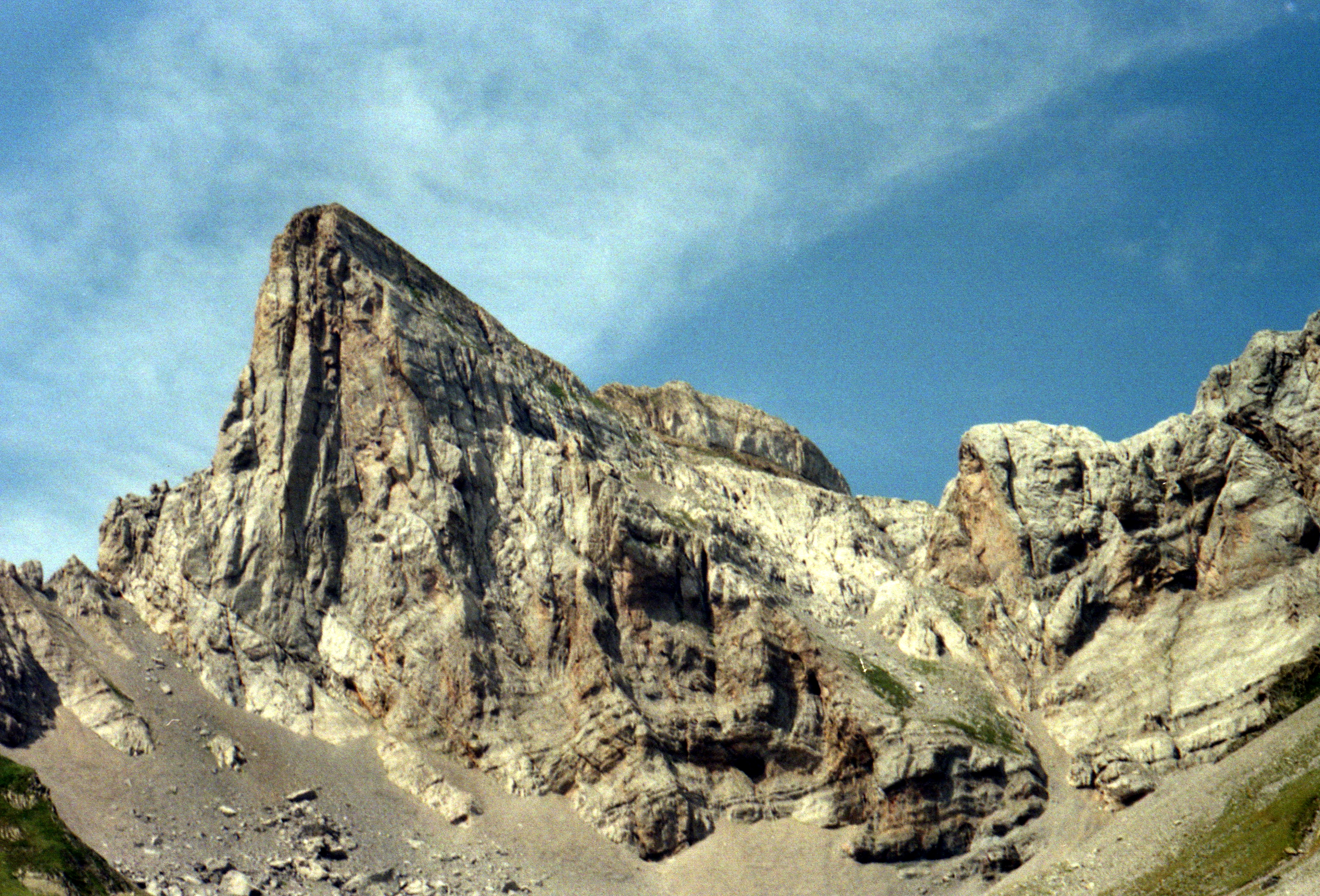 Detail Picture of the Table des Trois Rios (2421m) and Pic des Trois Rois (2444m), France, Pyrenées, Pyrenées-Atlantiques, Vallée d'Aspe, Cirque de Lescun, viewed from the Lac de Lhurs